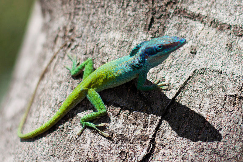 Allisons anole